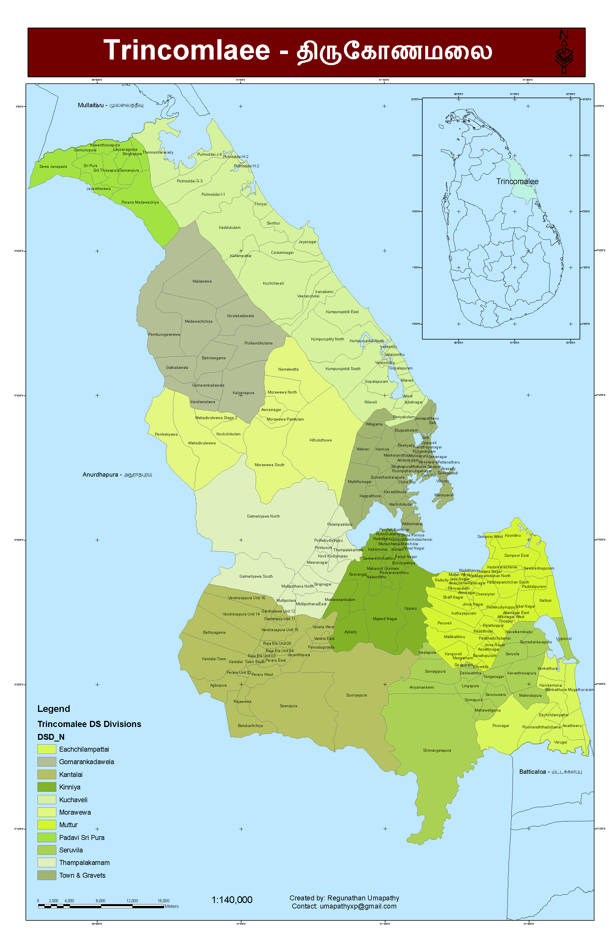 This is a district map of Trincomalee, Sri Lanka